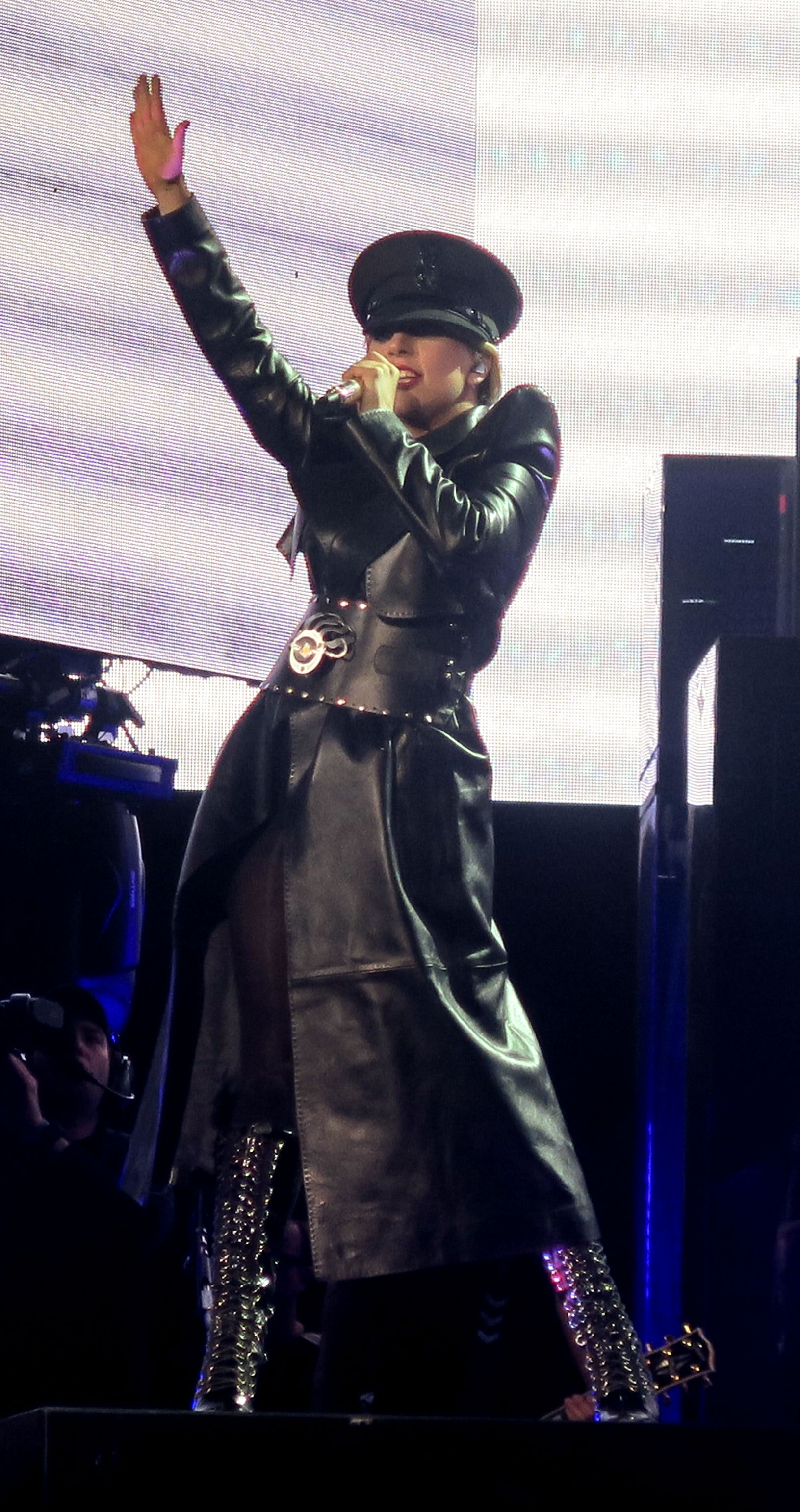 Lady Gaga performing "Scheiße" at Coachella, 2017